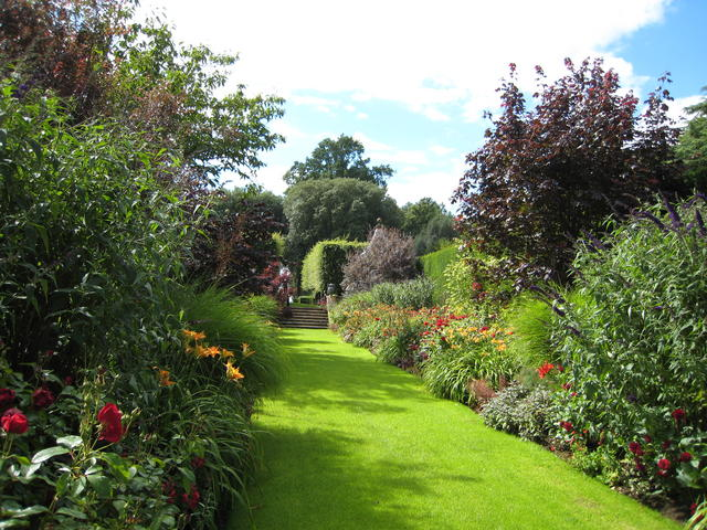 The Red Borders As the name says, looking across the east-west axis of Hidcote Manor Gardens.